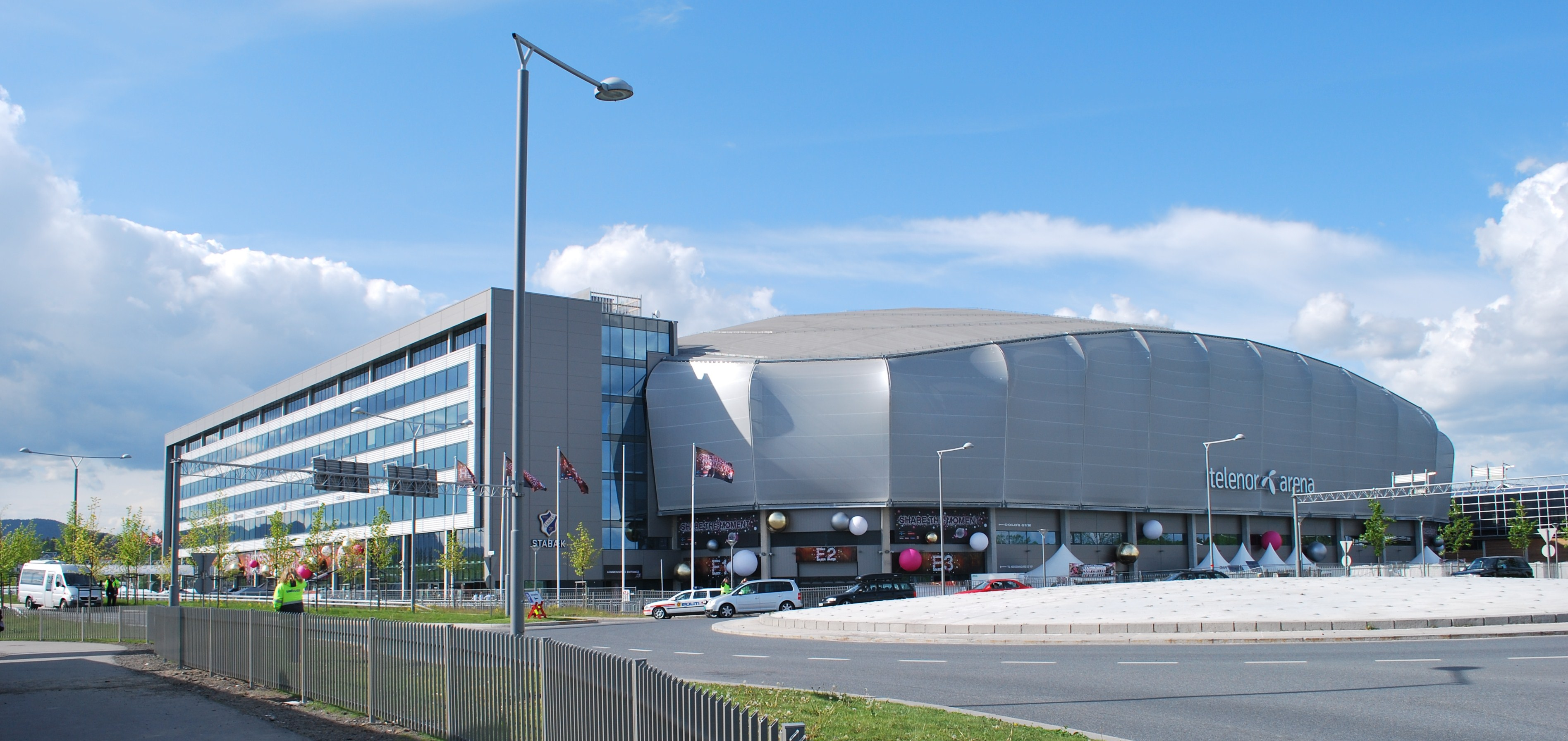 Telenor Arena, Fornebu by Oslo, day before final in Eurovision Song Contest 2010